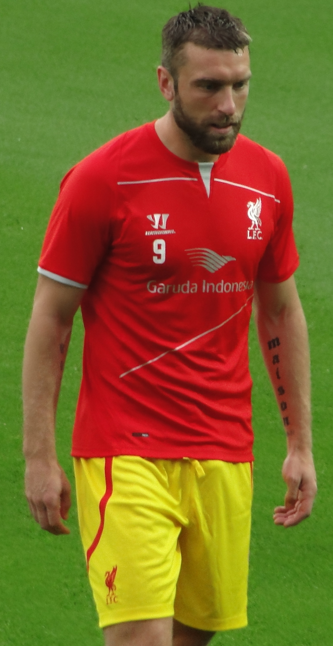 Liverpool player Rickie Lambert warming up before their defeat to West Ham United at the Boleyn Ground, London in September 2014